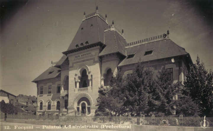 Administrative Palace in Focșani. The historical building was built between 1913-1926 and it hosted Putna County Prefecture during the interbelic period.